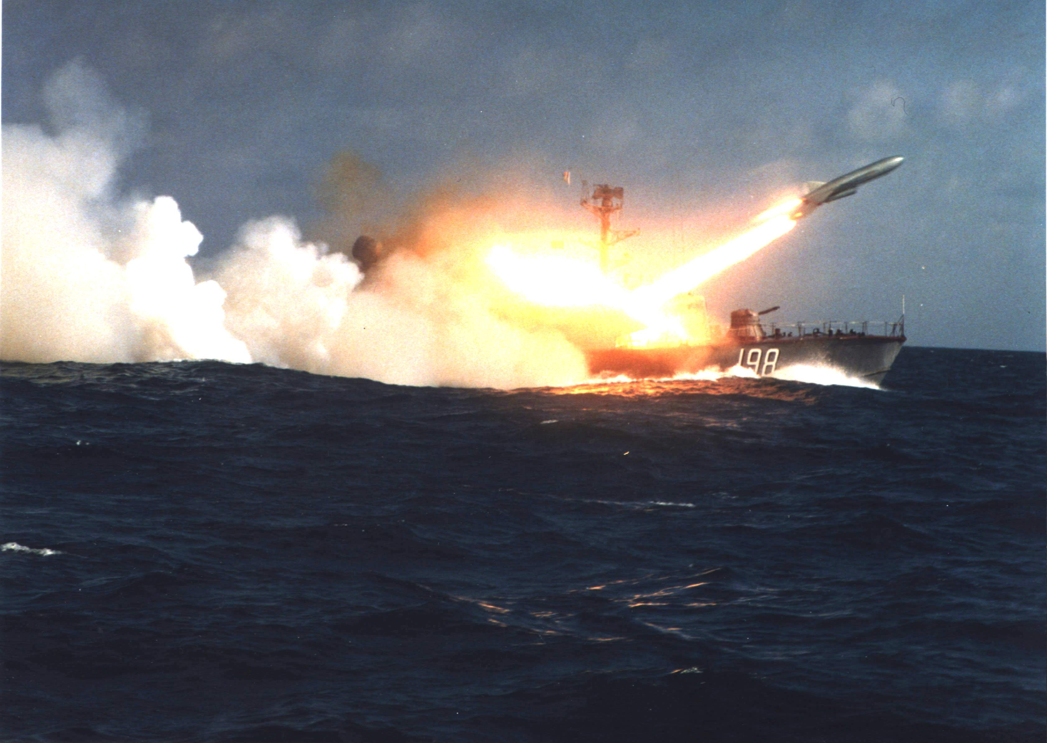 An OSA-1 type ship launced missile